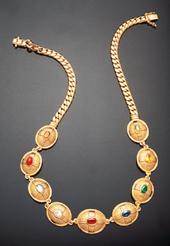 The Queen Sirikit Navaratna accepted by Her Majesty, the Queen of Thailand in 1993, made by Richard Shaw Brown and based on the Navaratna belief in Planetary Gemology.